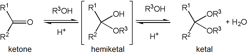 Demonstrates a typical ketone to hemiketal to ketal transformation. Ketals are carbons which make single bonds to two R groups and two OR groups. Ketals fall under the larger class of Acetals by the IUPAC definition, but colloquially an acetal group is a carbon which is bonded to a single R group, two -OR groups, and a hydrogen atom.